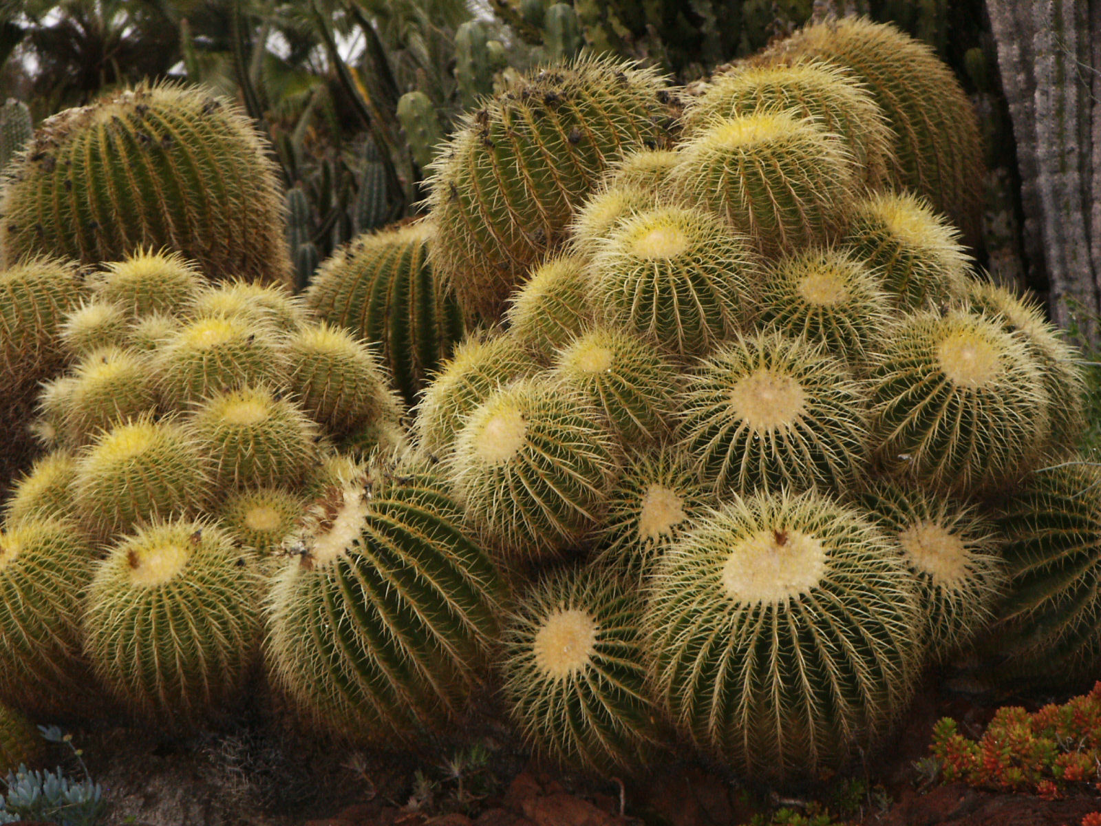 Golden Barrel cactus, Huntington Library Desert Garden, in afternoon during rain, February 2009 - Various cactus and succulent plants